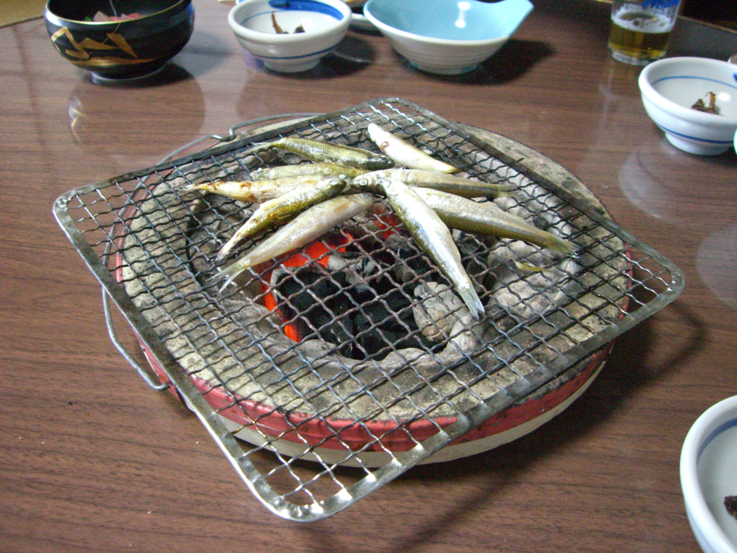 Japanese cuisine (Yakizakana), Honmoroko, Gnathopogon caerulescens , Shiga-pref(Biwa-Lake)